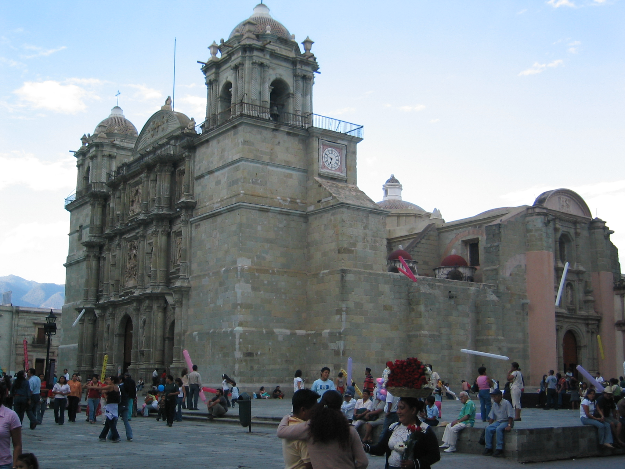 Oaxacan Cathedral located in the Zocalo